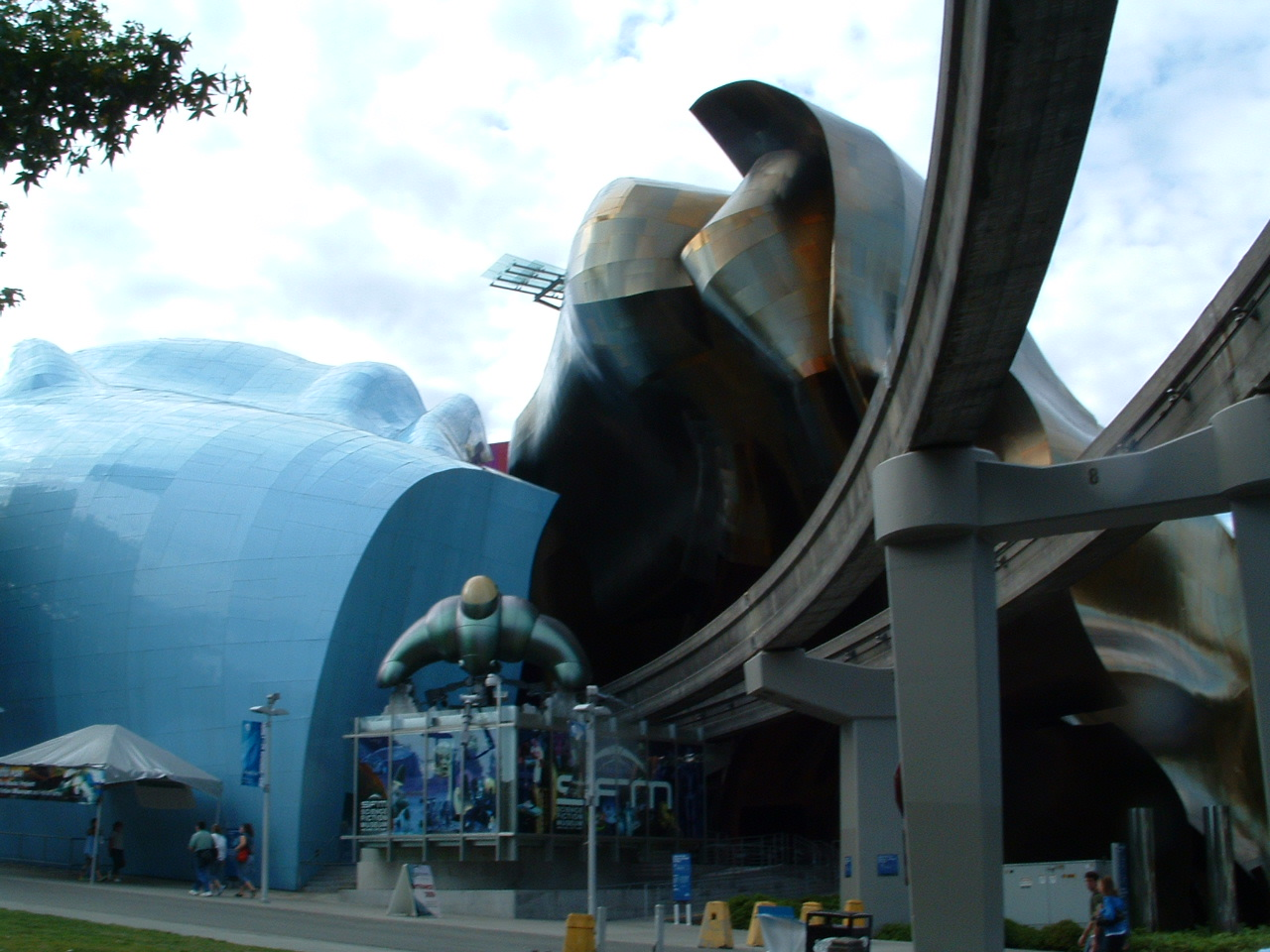 Photo of the Seattle Center Monorail tracks going through the EMP building and by the Science Fiction Museum and Hall of Fame sculpture. Taken by User:Reywas92 on August 2, 2006. (In the details below, my camera's date was wrong.)